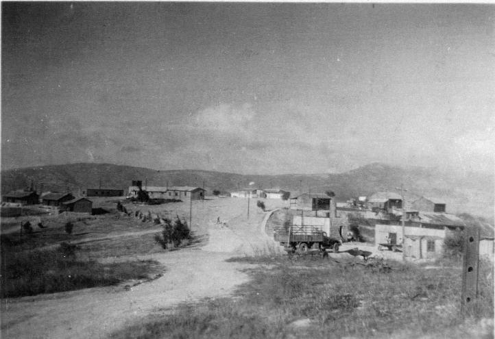 Ein Zeitim